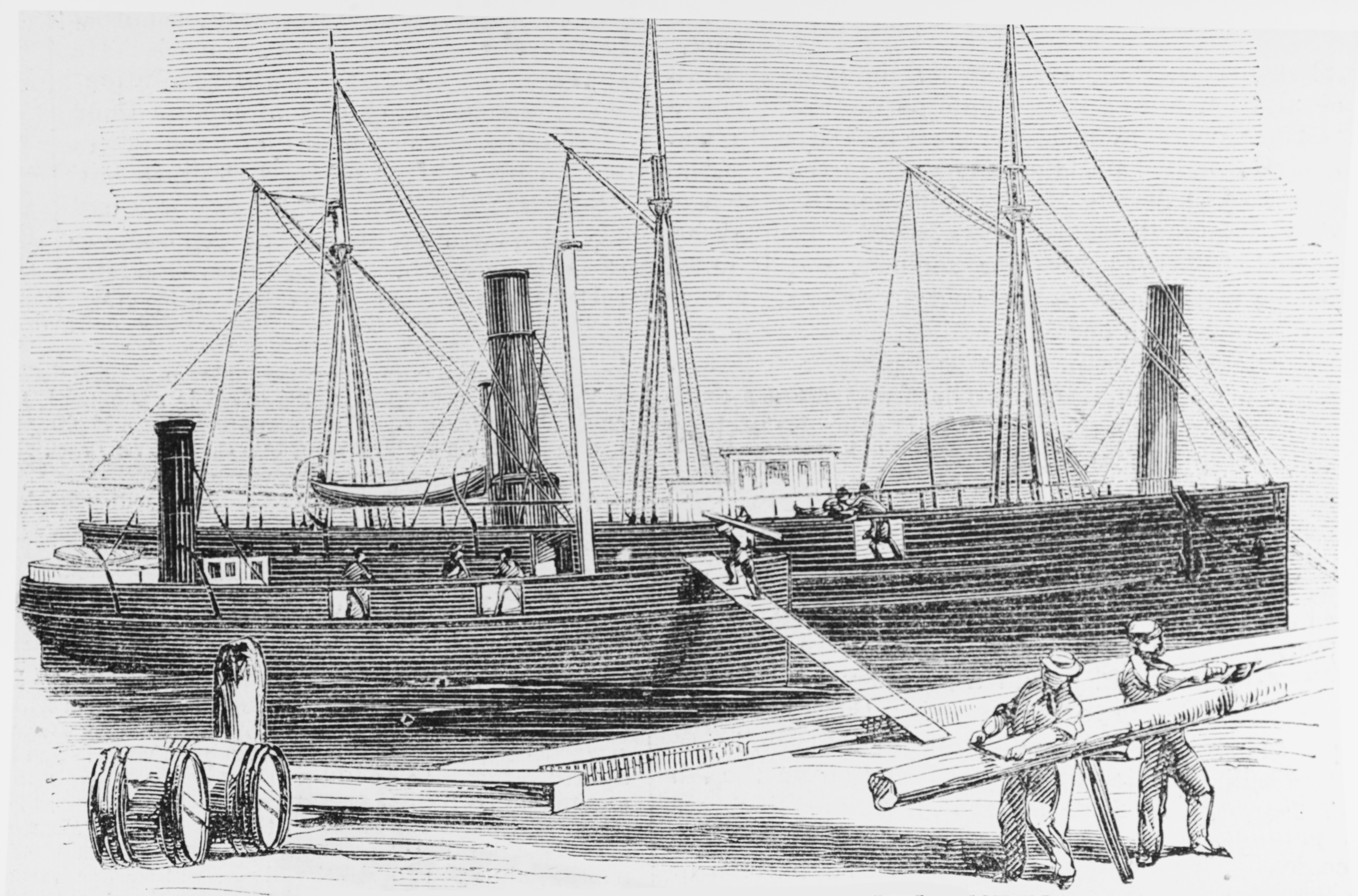 The steamers E.B. Hale and Stars & Stripes fitting out at the New York Navy Yard, during the summer of 1861